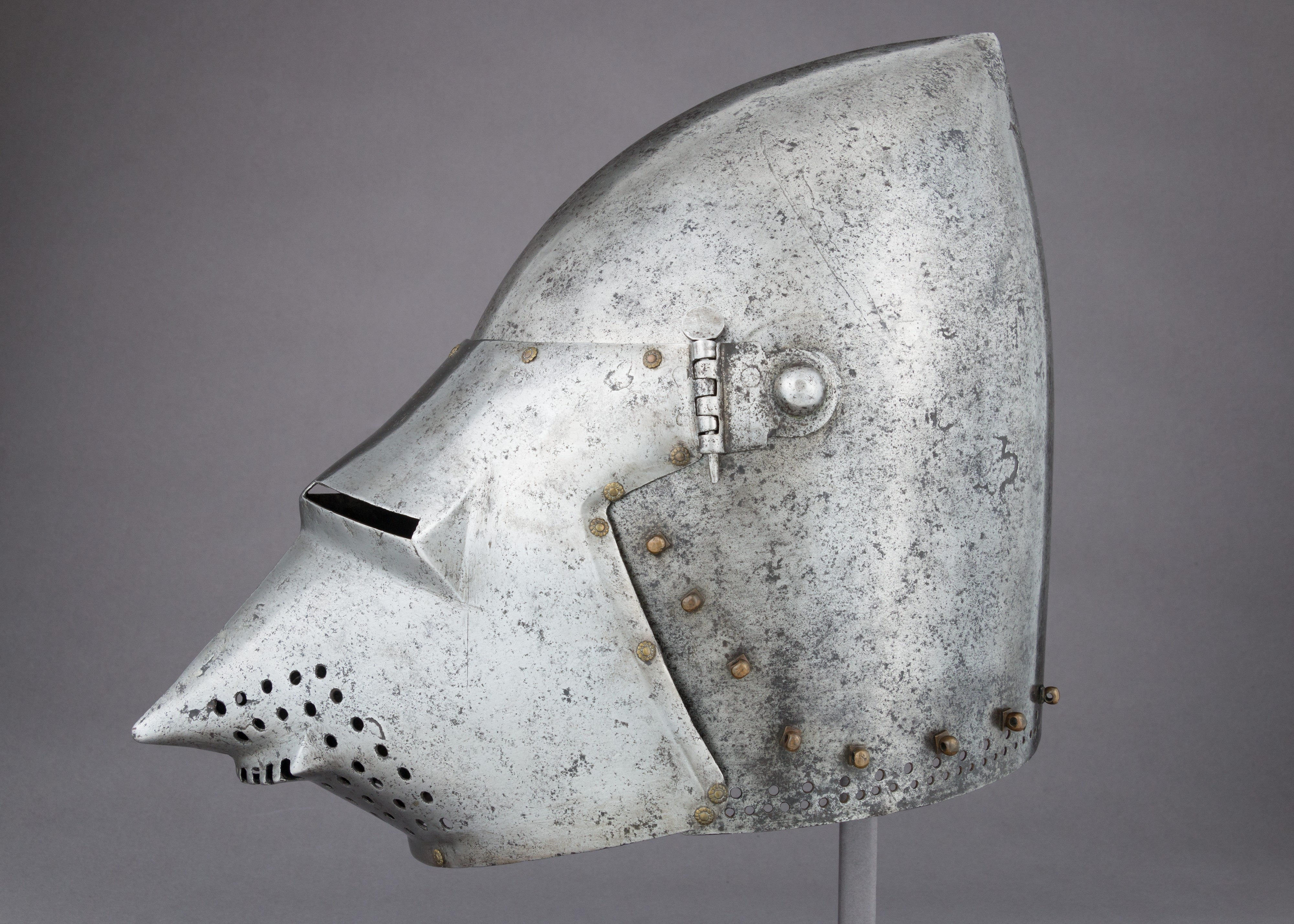 German; Visored bascinet; Helmets